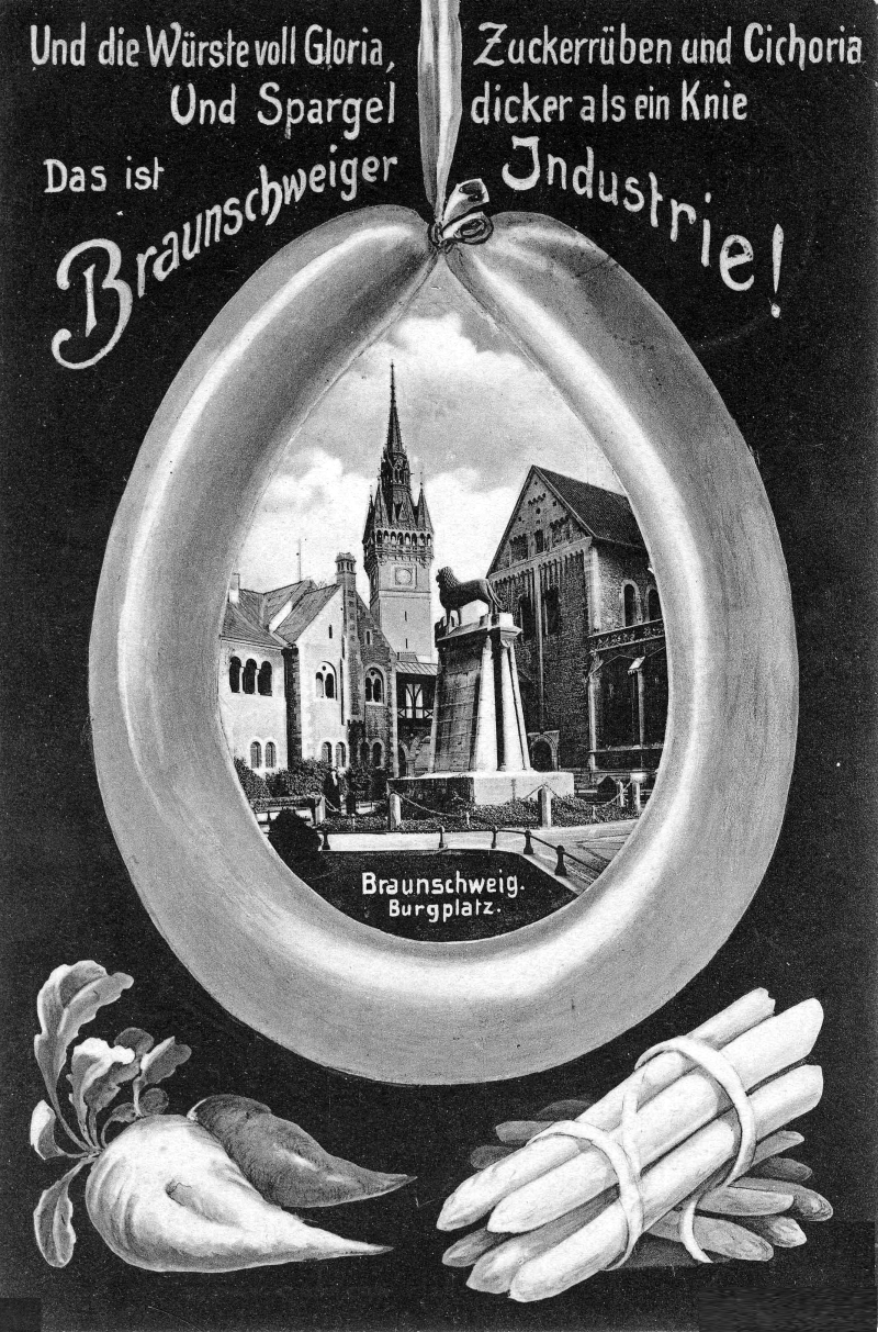 Braunschweig, Germany: Postcard “Brunswick’s Industry”, from approx. 1904.